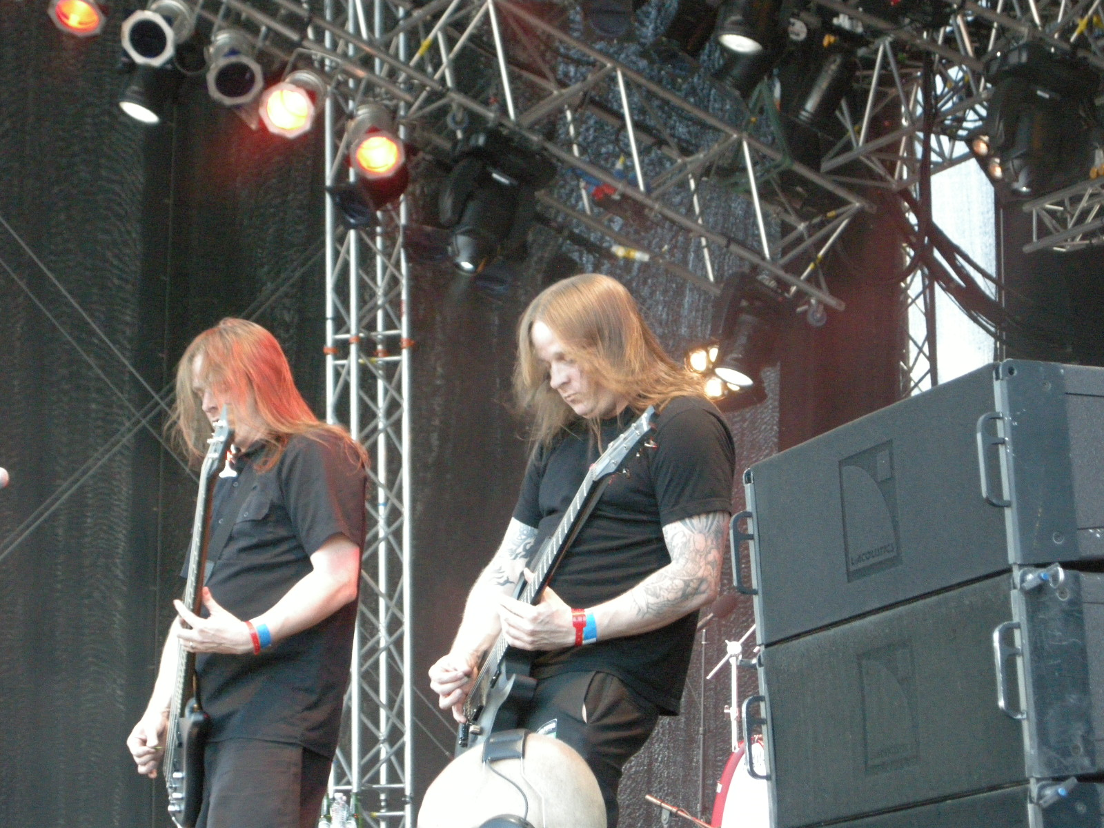 Jonas and Anders Björler, The Haunted, at Metaltown 2009